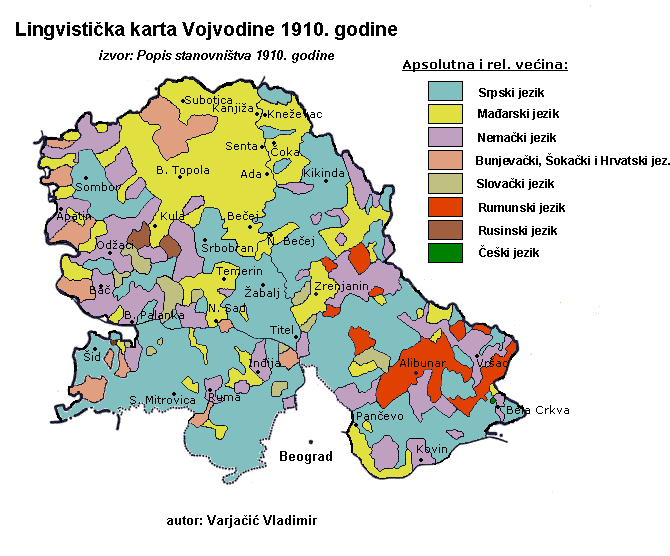 Linguistic map of Vojvodina - census 1910. Note: map is made according to the 1910 census data about spoken language and it does not correspond with size of ethnic groups in some places (Novi Sad, Zrenjanin, Subotica, etc), since some of the languages listed in census (mostly the Hungarian language) were spoken by several different ethnic groups (Hungarians, Jews, Bunjevci, etc).